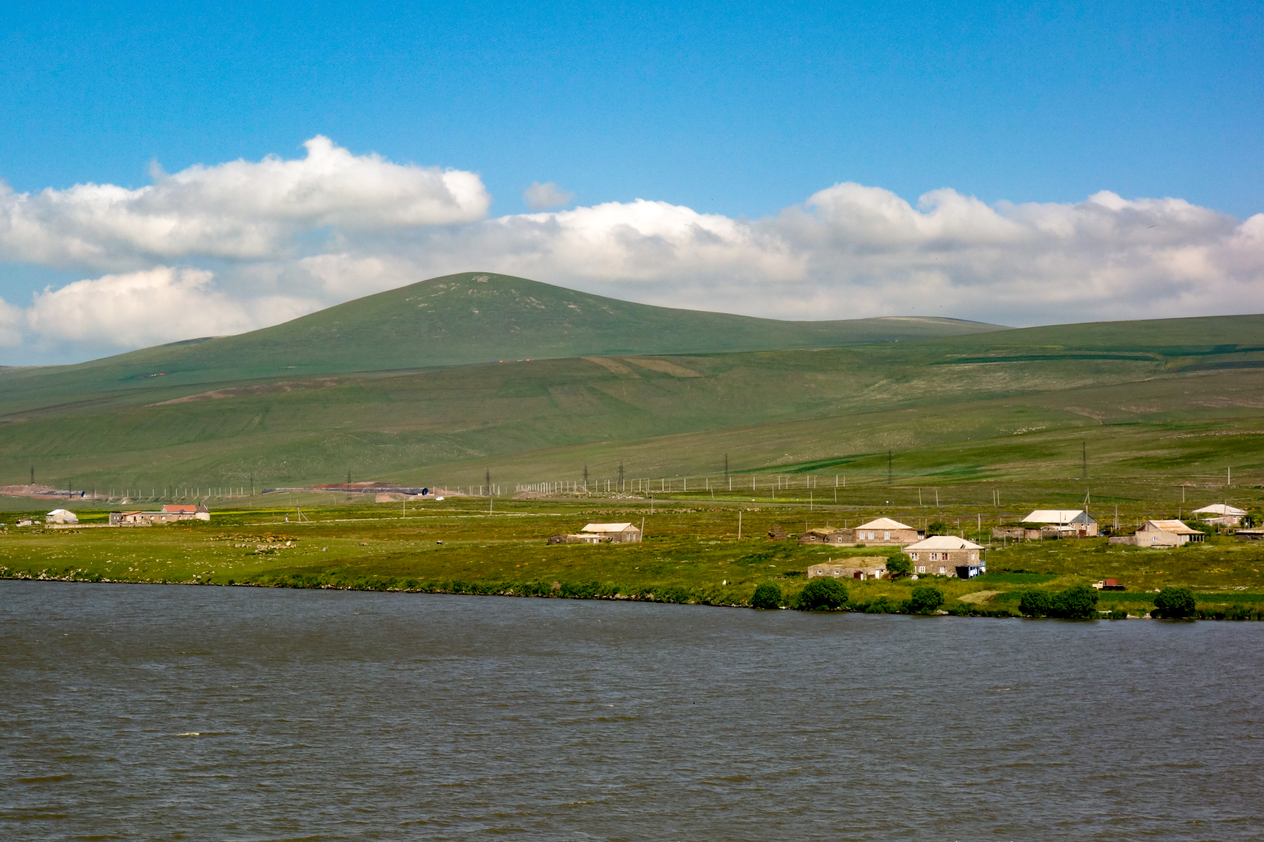 Mountains Kulbaki (left) and Davakrani (right), view from village Poka, Samtskhe-Javakheti, Georgia